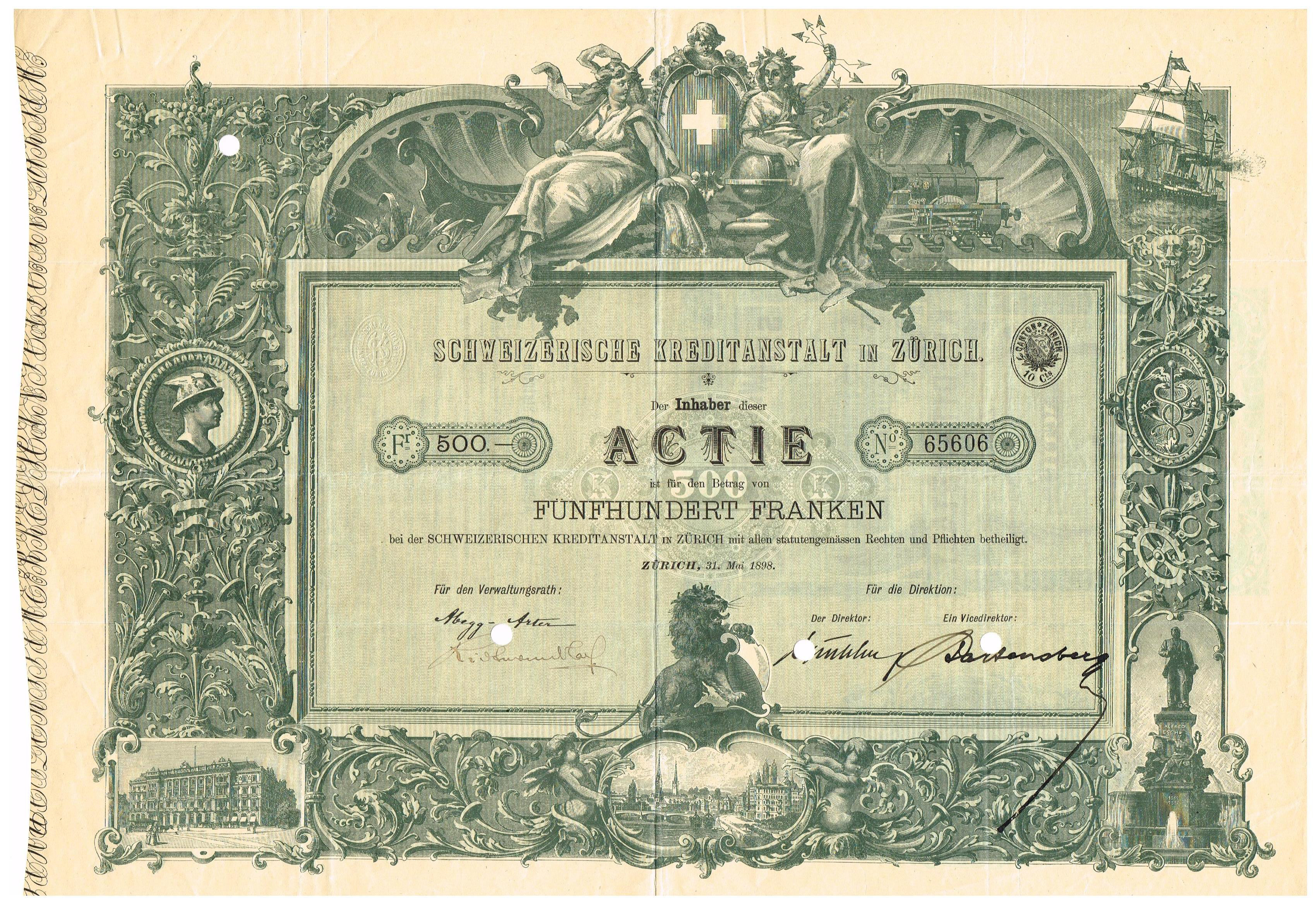 Share of the Schweizerische Kreditanstalt in Zurich, issued 31. May 1898, predecessor of Credit Suisse.